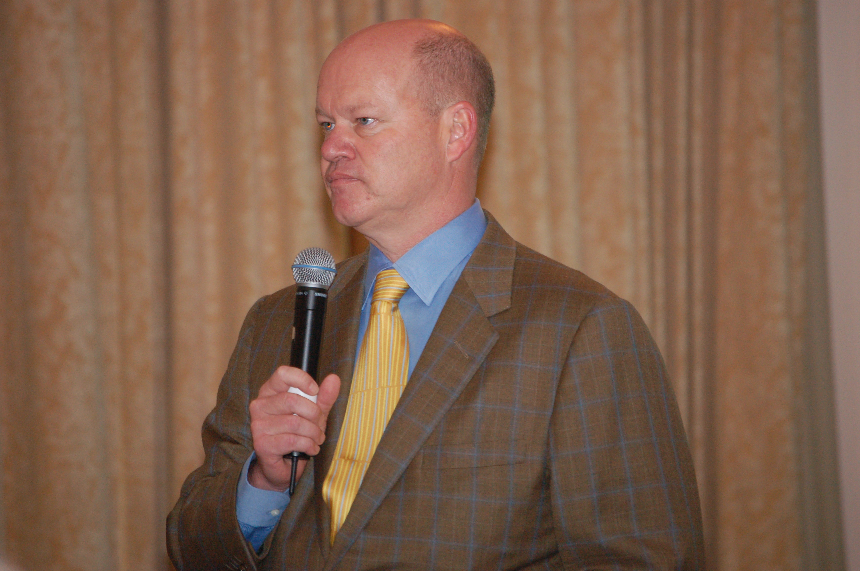 Brad speaking to the bloggers